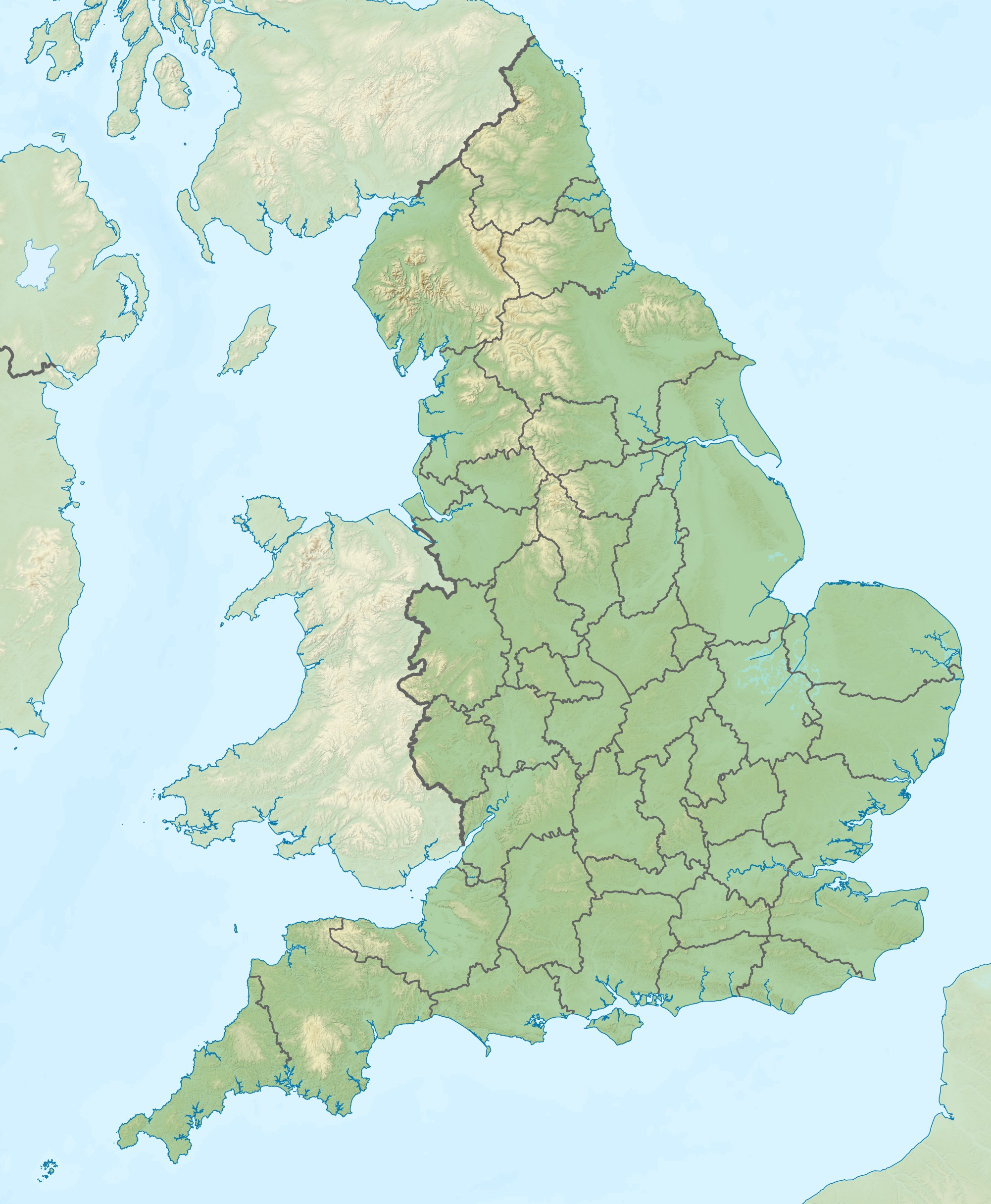 Relief map of England, UK. Equirectangular map projection on WGS 84 datum, with N/S stretched 170% Geographic limits: West: 6.75W East: 2.0E North: 56.0N South: 49.75N